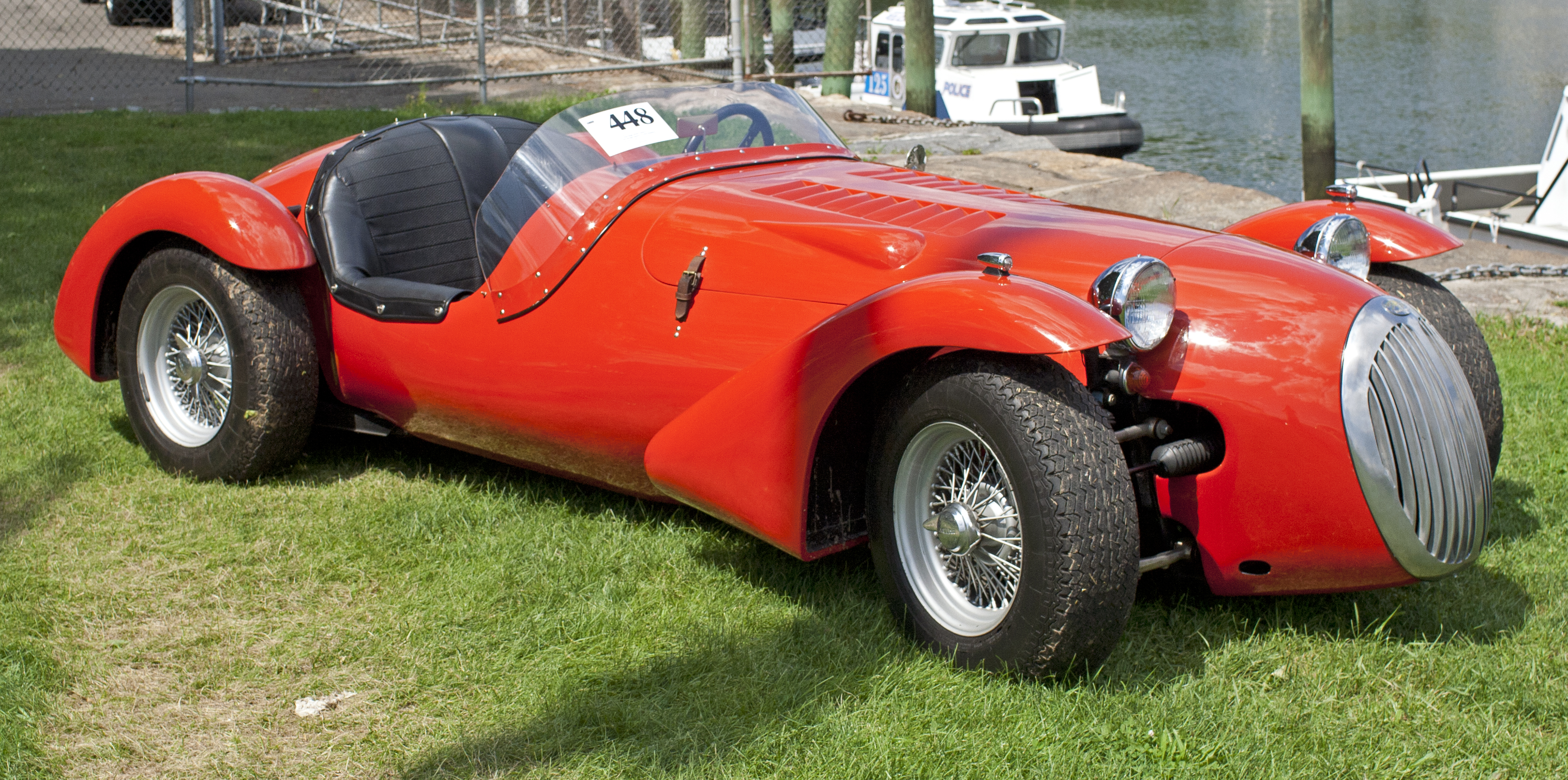 1979 Kougar Sports 3.8 Liter Roadster, chassis number P1B52479DN. Originally belonged to Road & Track editor Tony Hogg, and then to David E. Davis, Jr. Up for sale at the June 3, 2012 Bonham's Auction at the Greenwich Concours d'Elegance.